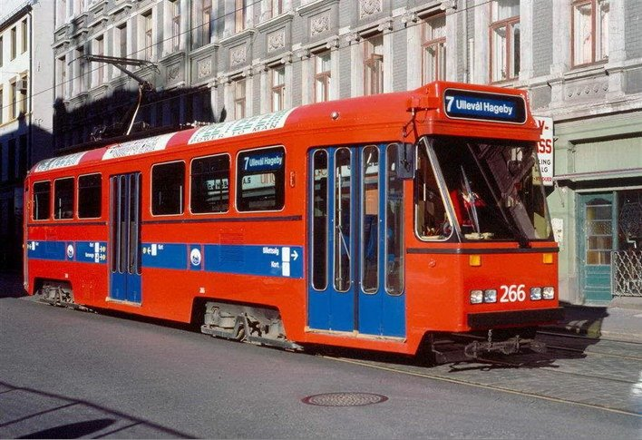 Oslo Sporveier SM83 tram no. 266 in Thorvald Meyers gate on the Grünerløkka Torshov Line